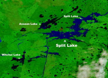 Portion of NASA map showing Split Lake in Manitoba (Captions have been added by Kayoty)